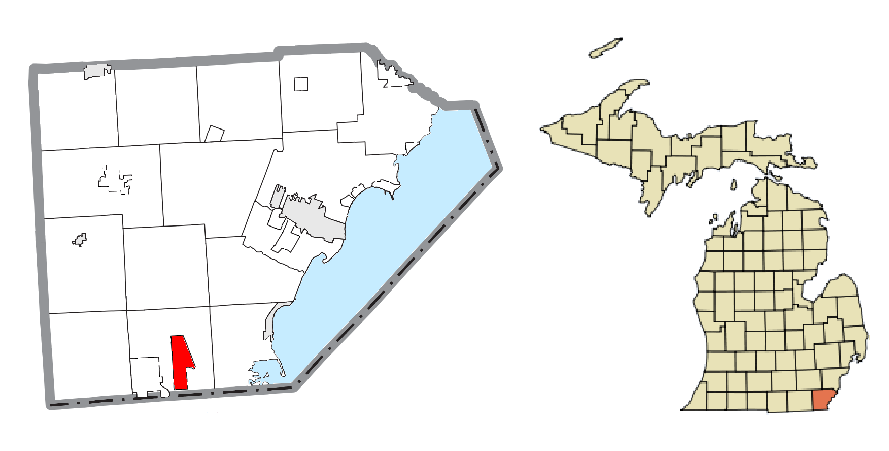 Temperance, MI